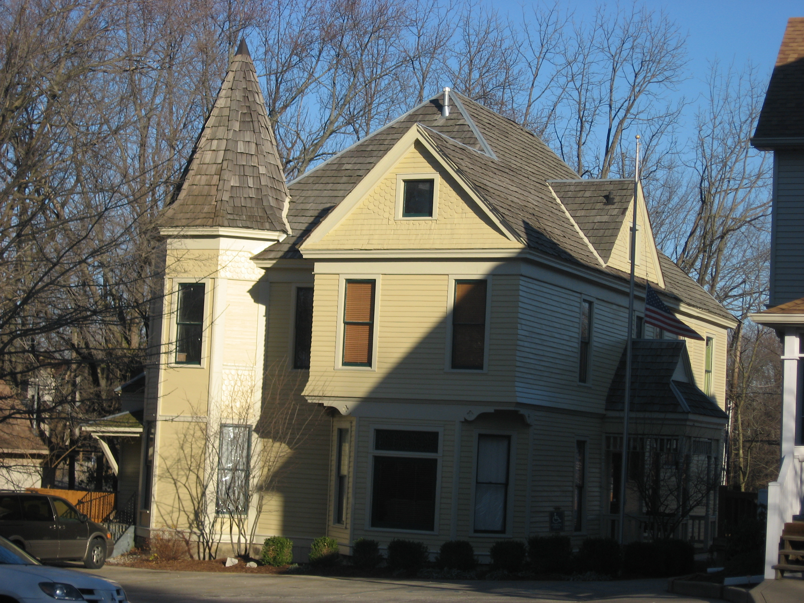 Front and southern side of the William Lowe Bryan House, located at 812 N. College Avenue in Bloomington, Indiana, United States. Built in 1895, it is part of the locally-designated Illinois Central and North College Historic District.